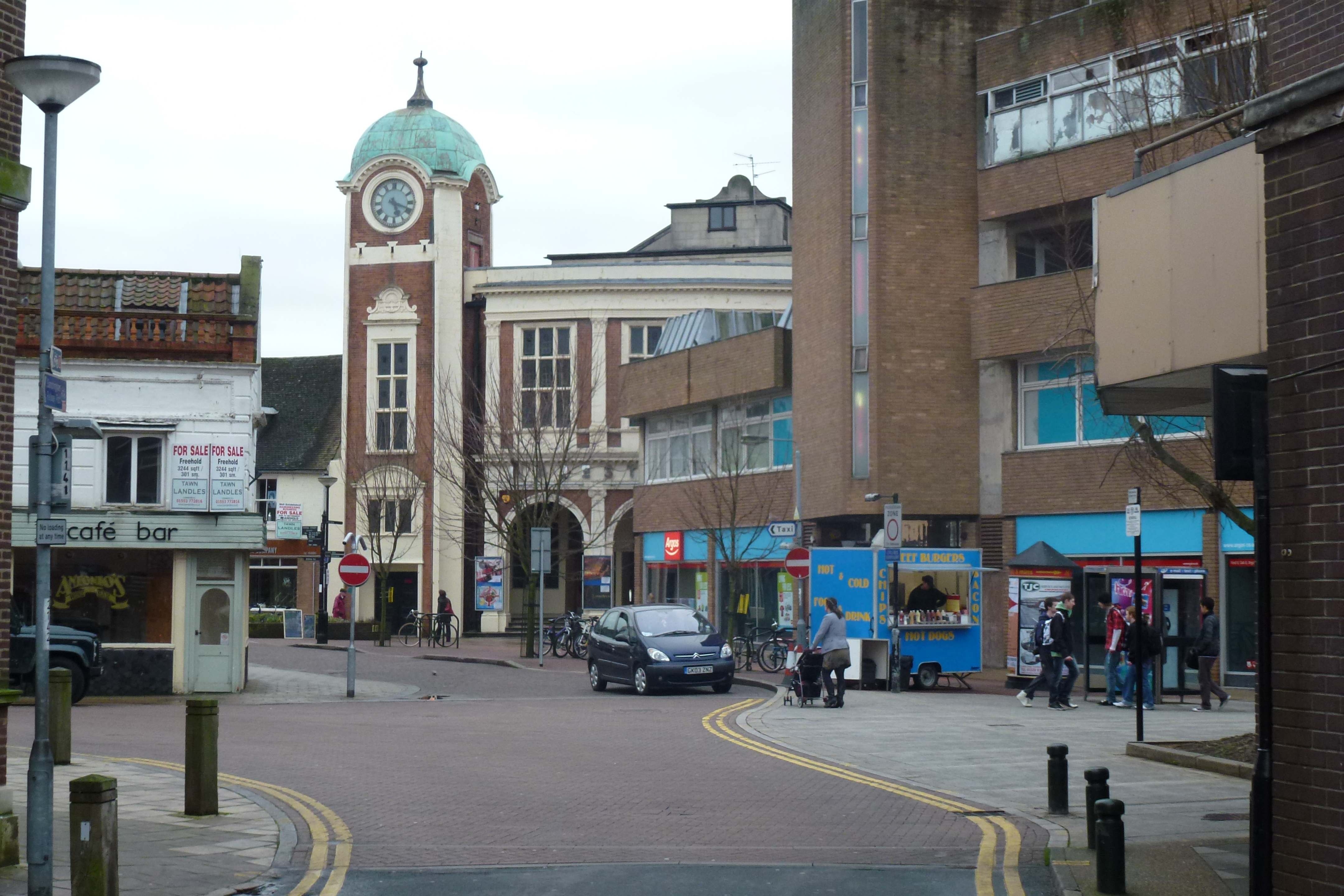 One of Kings Lynn most beautiful buildings. This stunning cinema was officially opened on 23rdMay 1928; the year is commemorated in the stained glass window at the front of the building